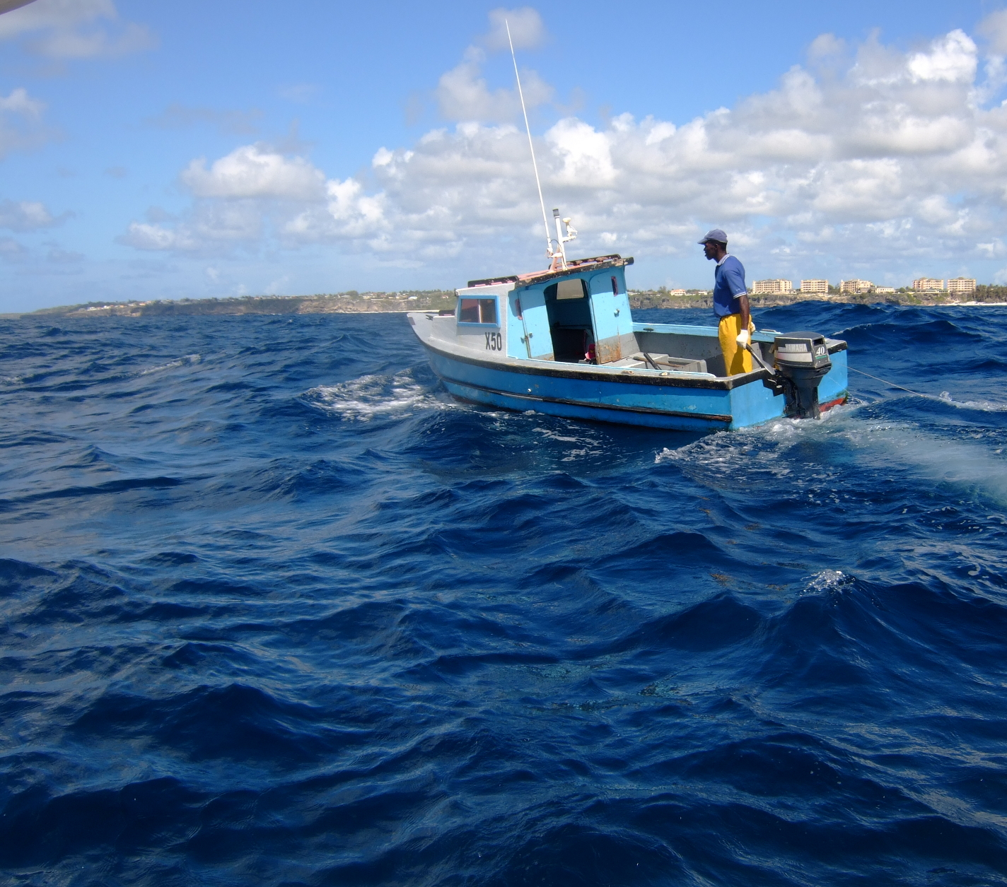 X50 was line fishing for baraccuda off the fathhom while the divers on P73 were decompressing between dives.